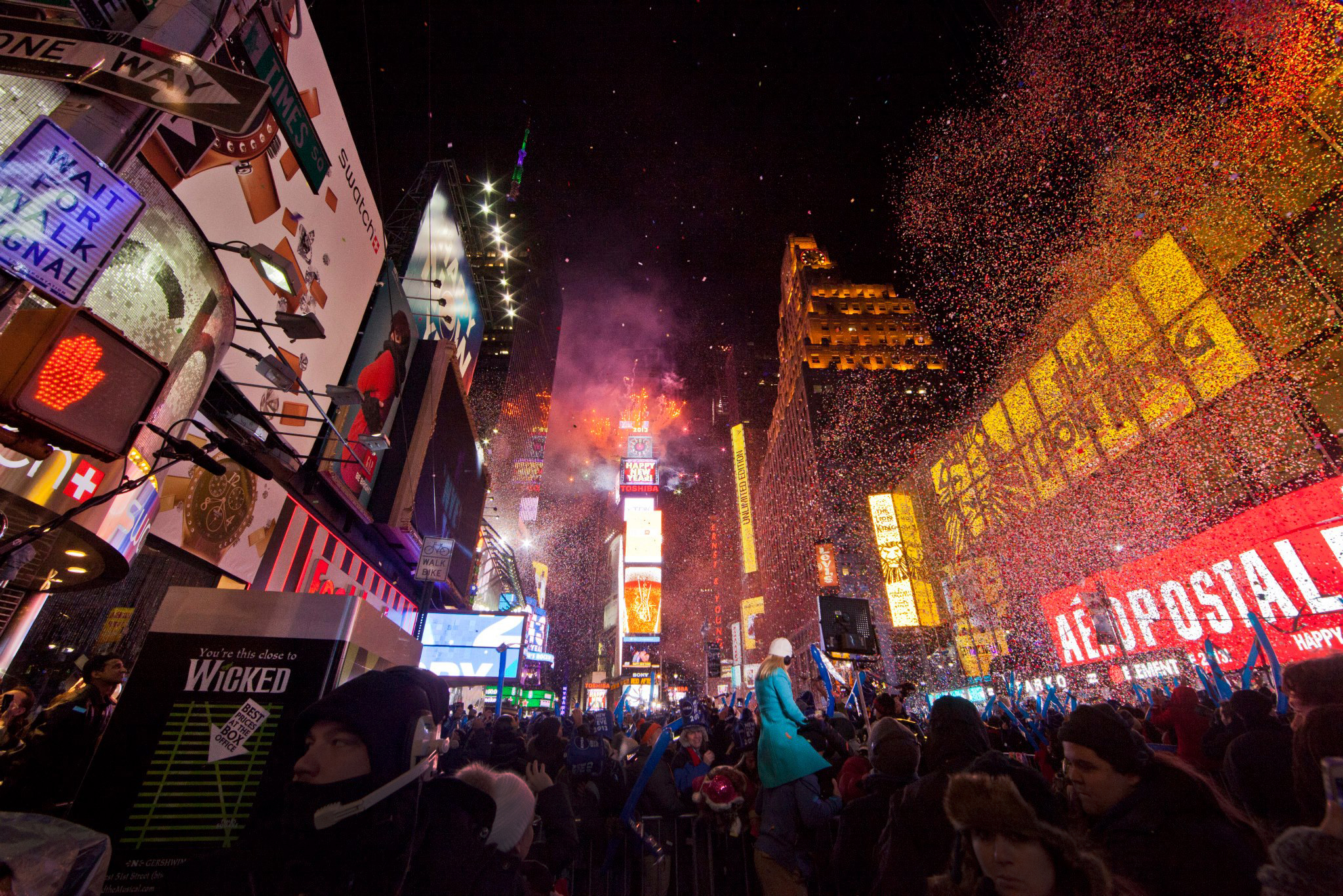 Working New Years Eve Social Media for NBC